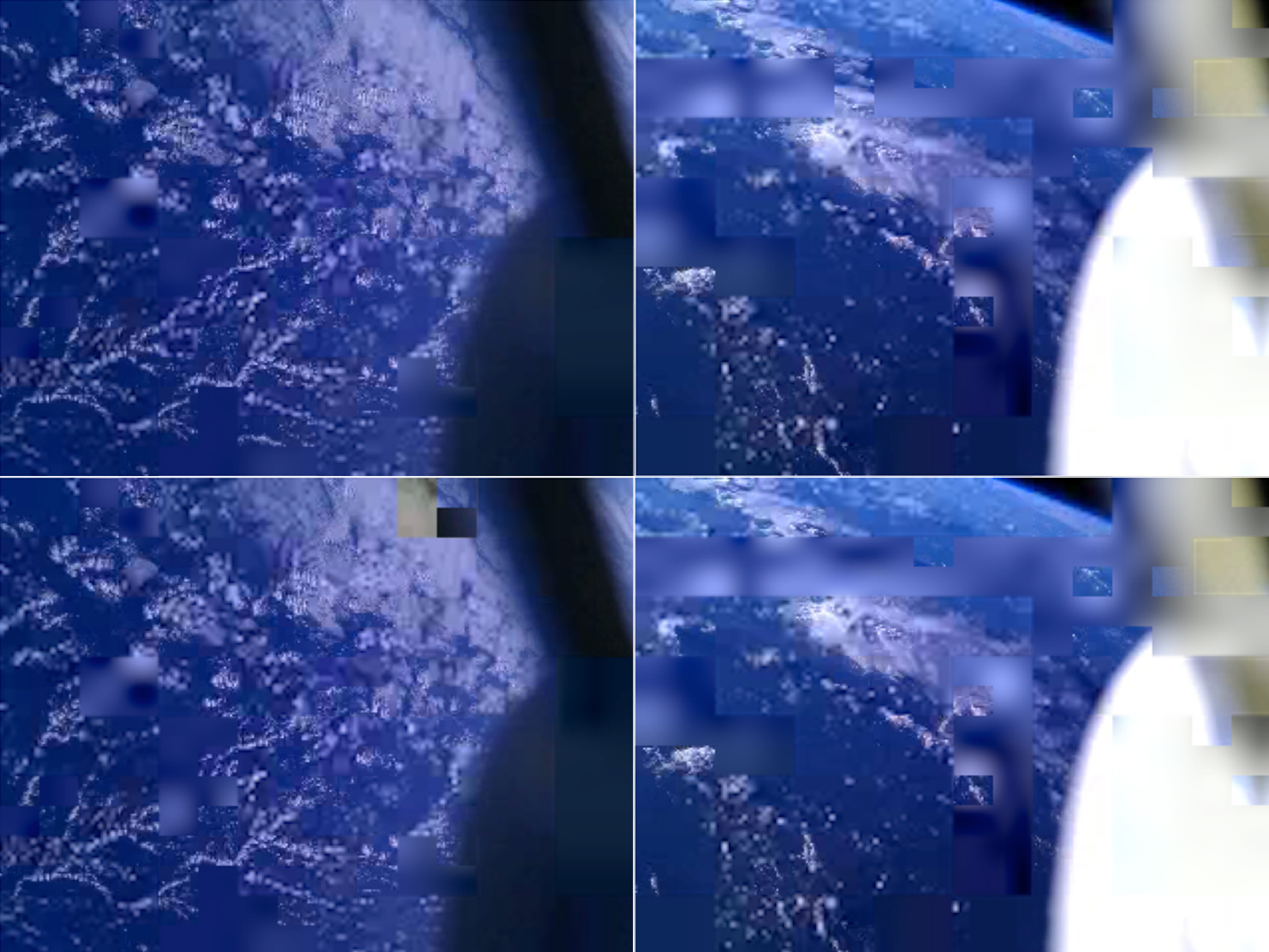 These images of Earth were reconstructed from photos taken by three smartphones in orbit, or "PhoneSats." The trio of PhoneSats launched on April 21, 2013, aboard the Antares rocket from NASA's Wallops Flight Facility and ended a successful mission on April 27. The ultimate goal of the PhoneSat mission was to determine whether a consumer-grade smartphone can be used as the main flight avionics for a satellite in space. During their time in orbit, the three miniature satellites used their smartphone cameras to take pictures of Earth and transmitted these "image-data packets" to multiple ground stations. Every packet held a small piece of the big picture. As the data became available, the PhoneSat Team and multiple amateur radio operators around the world collaborated to piece together photographs from the tiny data packets. The PhoneSat project is a technology demonstration mission funded by NASA's Space Technology Mission Directorate at NASA Headquarters and the Engineering Directorate at NASA Ames Research Center. The project started in summer 2009 as a student-led collaborative project between Ames and the International Space University, Strasbourg. Description and more photos